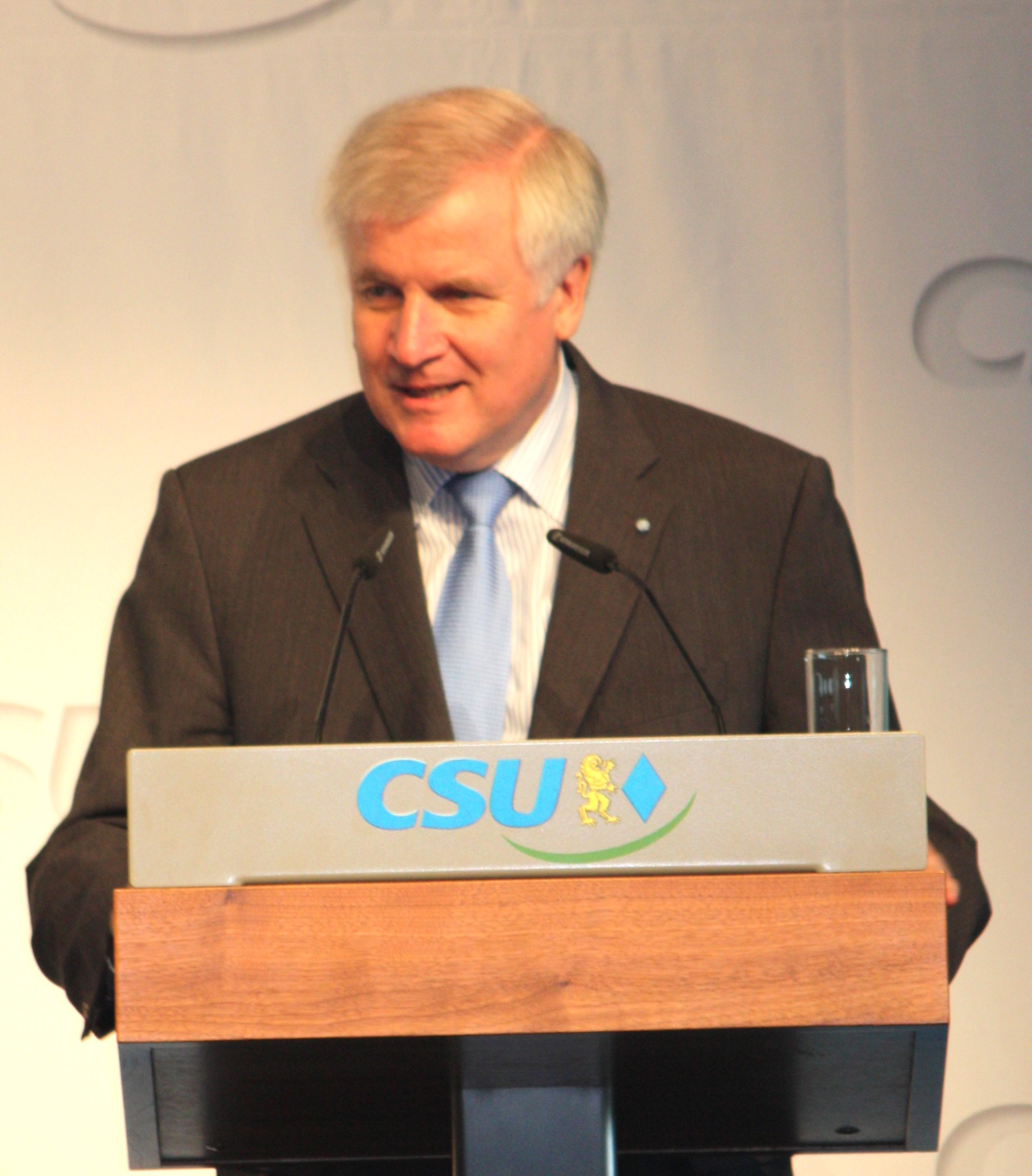 Horst Seehofer